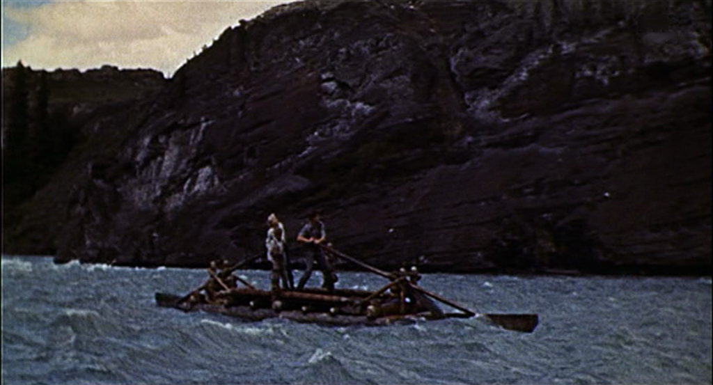 The raft in River of No Return (1954)